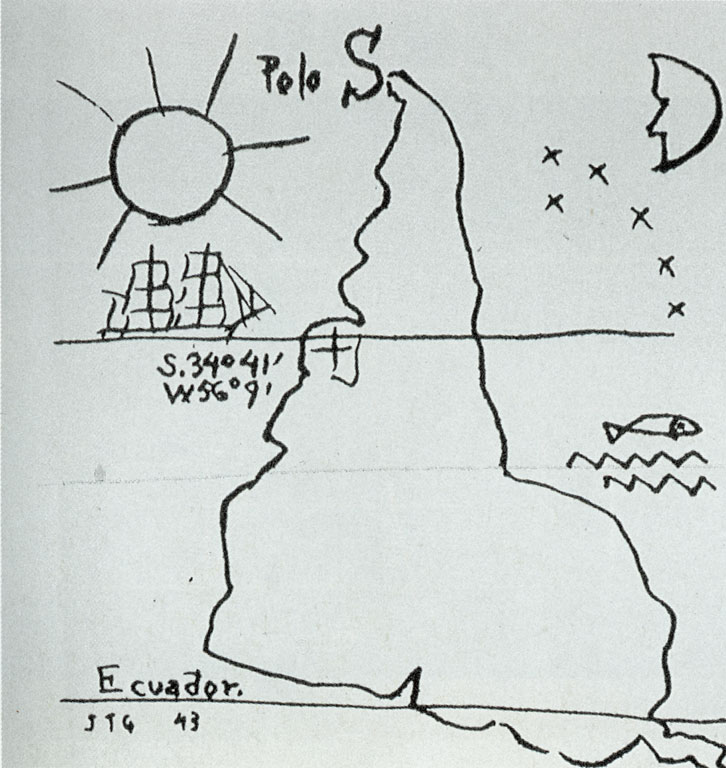 América Invertida. Work of the Uruguayan painter Joaquín Torres García (1878-1949).